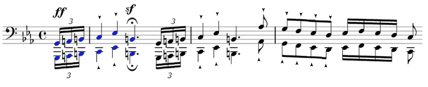 Ludwig van Beethoven's Piano Sonata No. 32, op. 111, first theme of the first movement